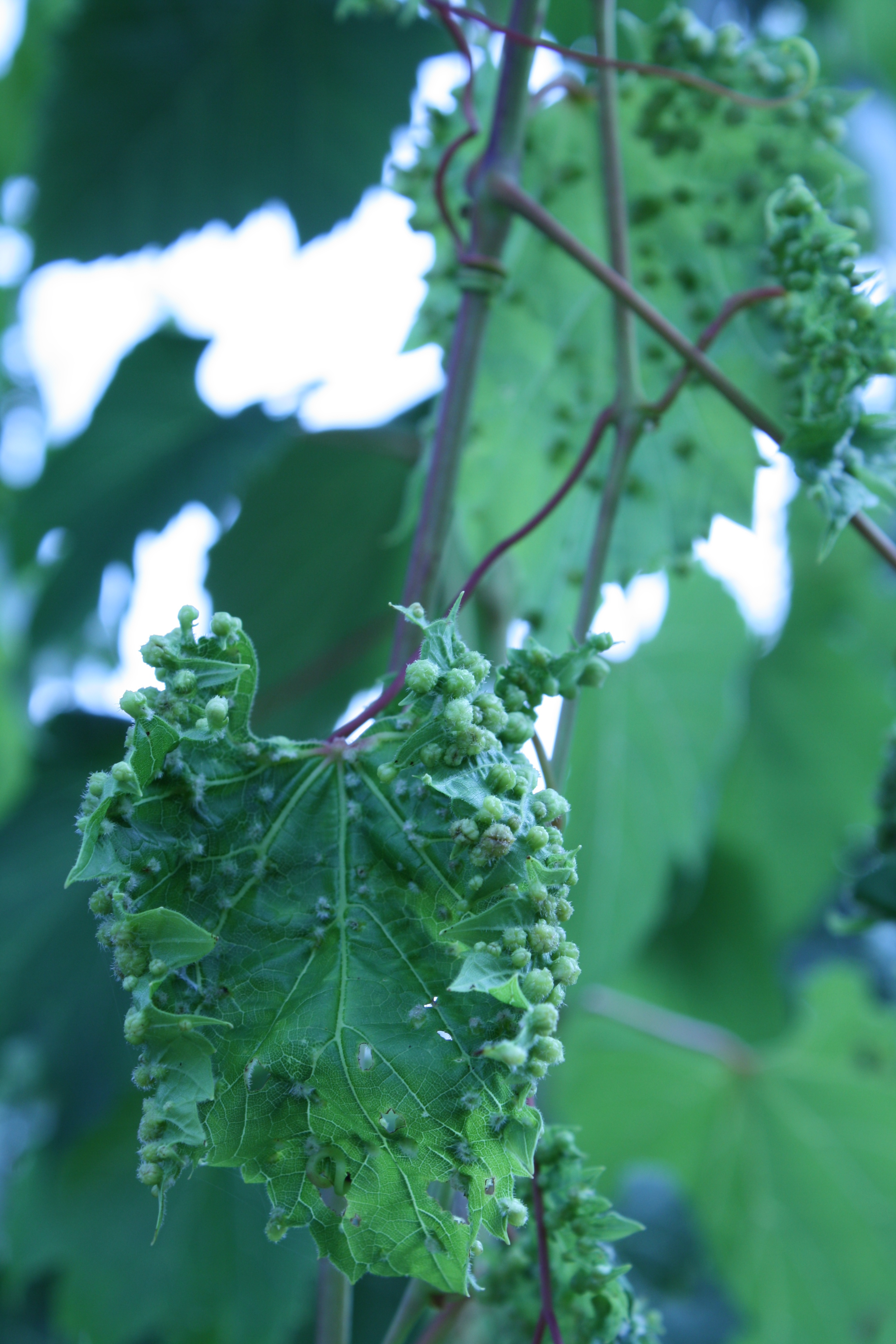 A grape leaf with galls formed during a phylloxera infection